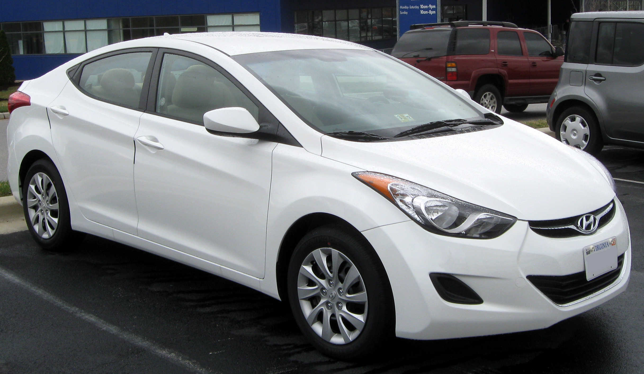 2011 Hyundai Elantra photographed in College Park, Maryland, USA.